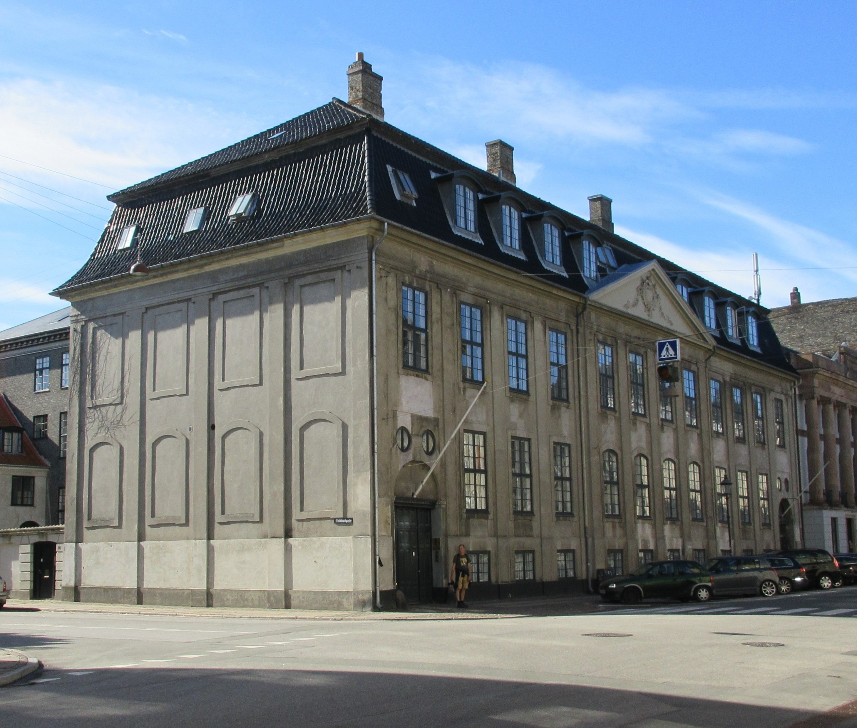 Jan von Ostens Gård at Amaliegade 42 / Toldbodgade 95 in Copenhagen, Denmark.